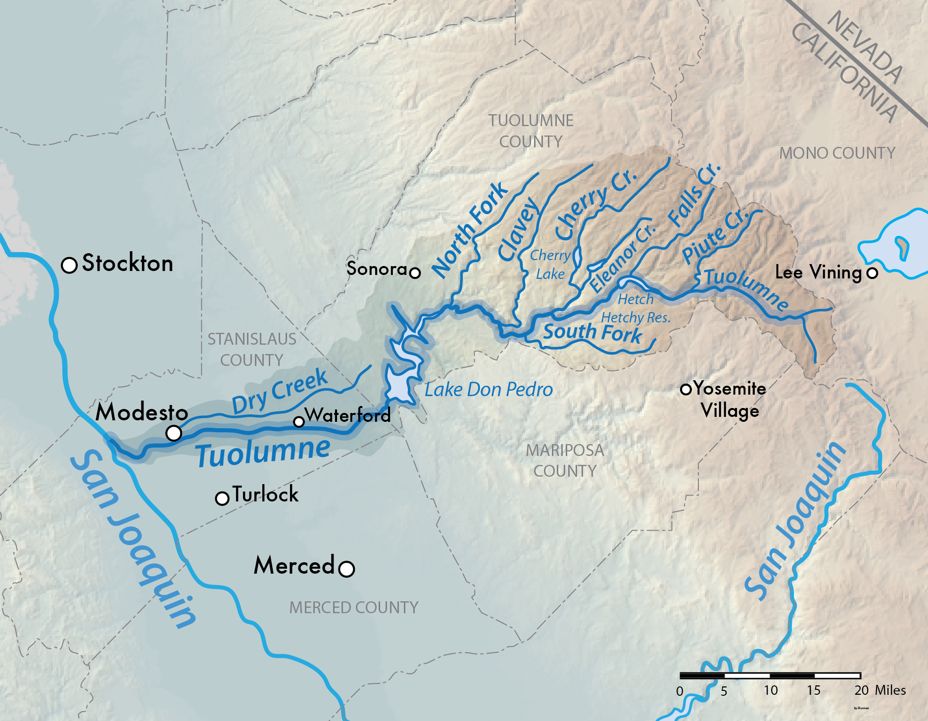 Map of the Tuolumne River watershed in Central California, USA. Shaded relief from US Geological Survey.